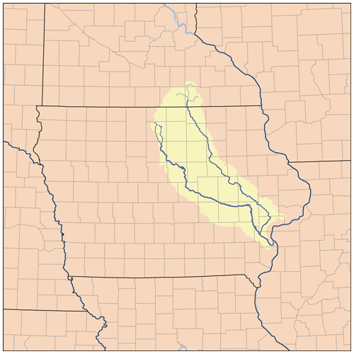 Map of the Iowa River watershed, including its longest tributary, the Cedar River — in Iowa.